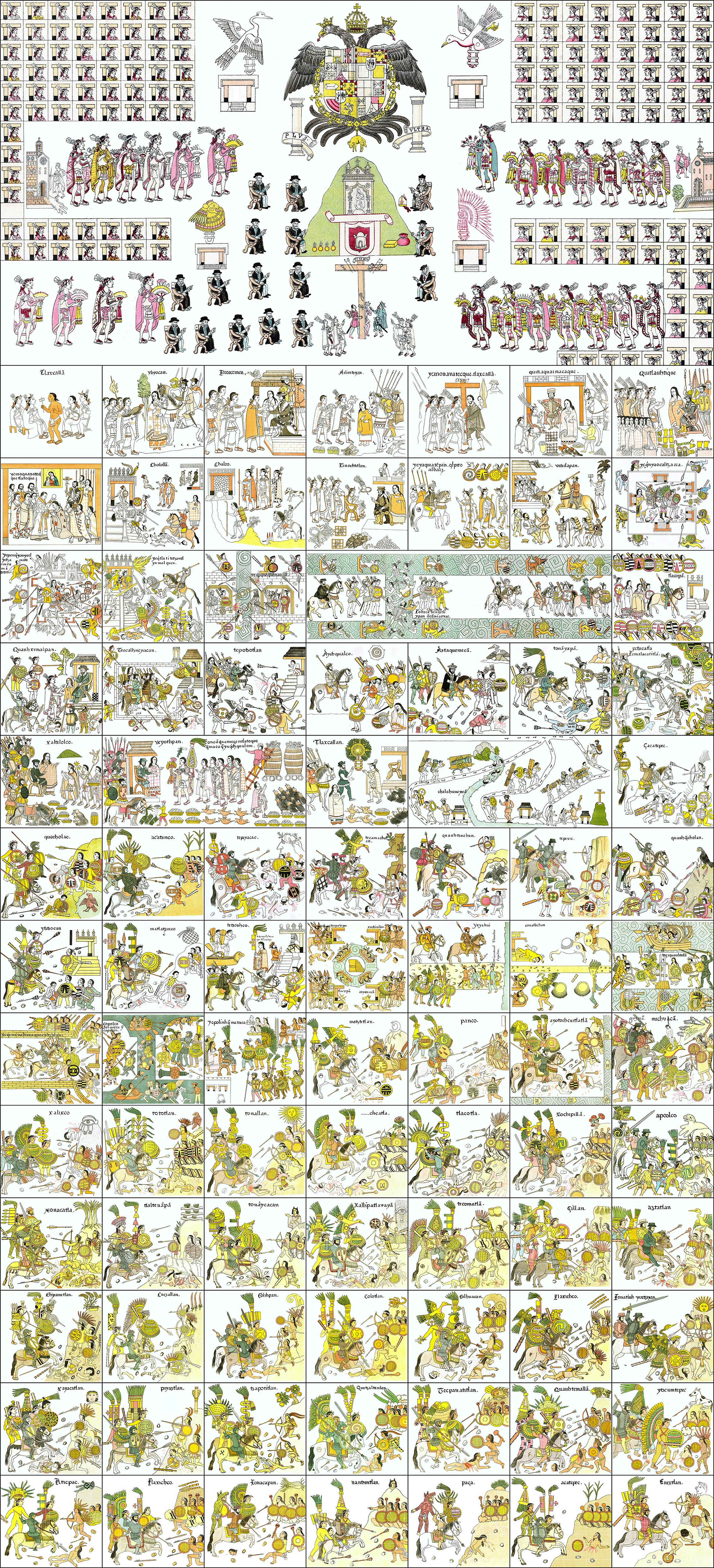 Full image of the Lienzo de Tlaxcala. 1773 Reproduction from 1584 original version.